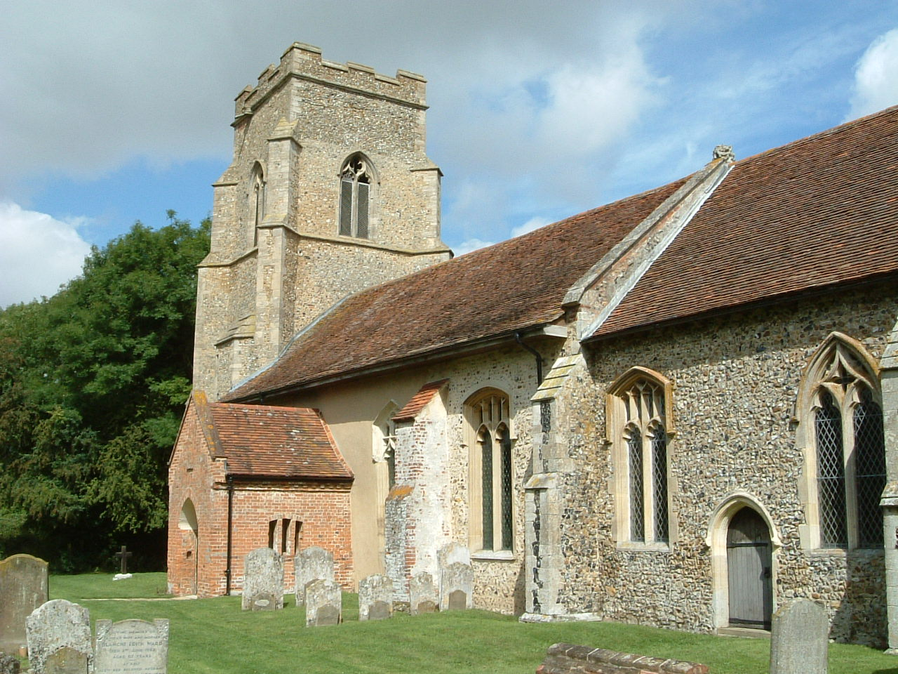 Kettlebaston church, Suffolk. Taken by James@hopgrove, July 2005.